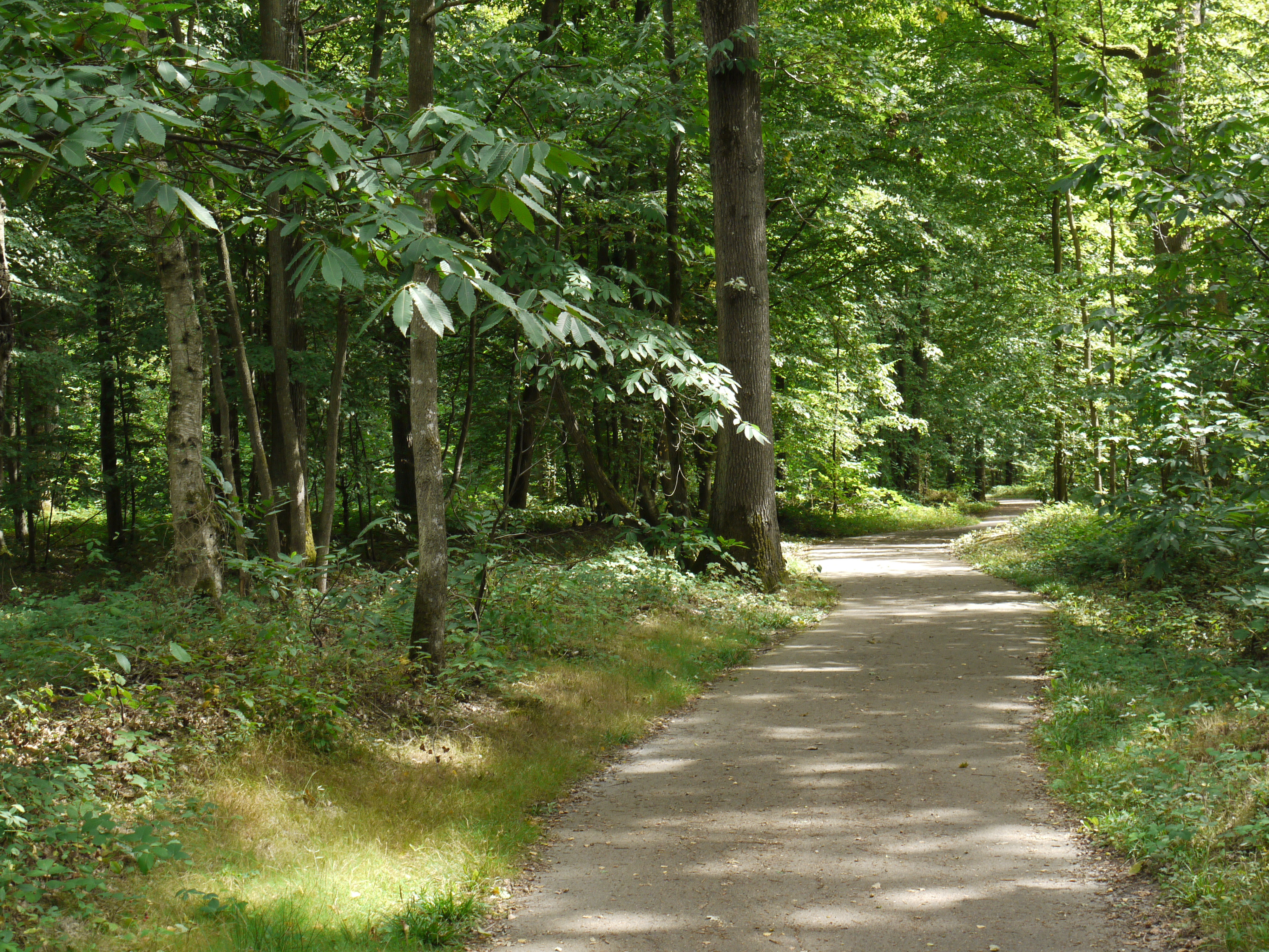 Bikeway, Foret de Rambouillet, Ile de France